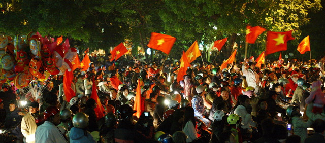 People in Hanoi rushing into streets to celebrate the victory of Vietnam national football team in AFF Cup 2008.